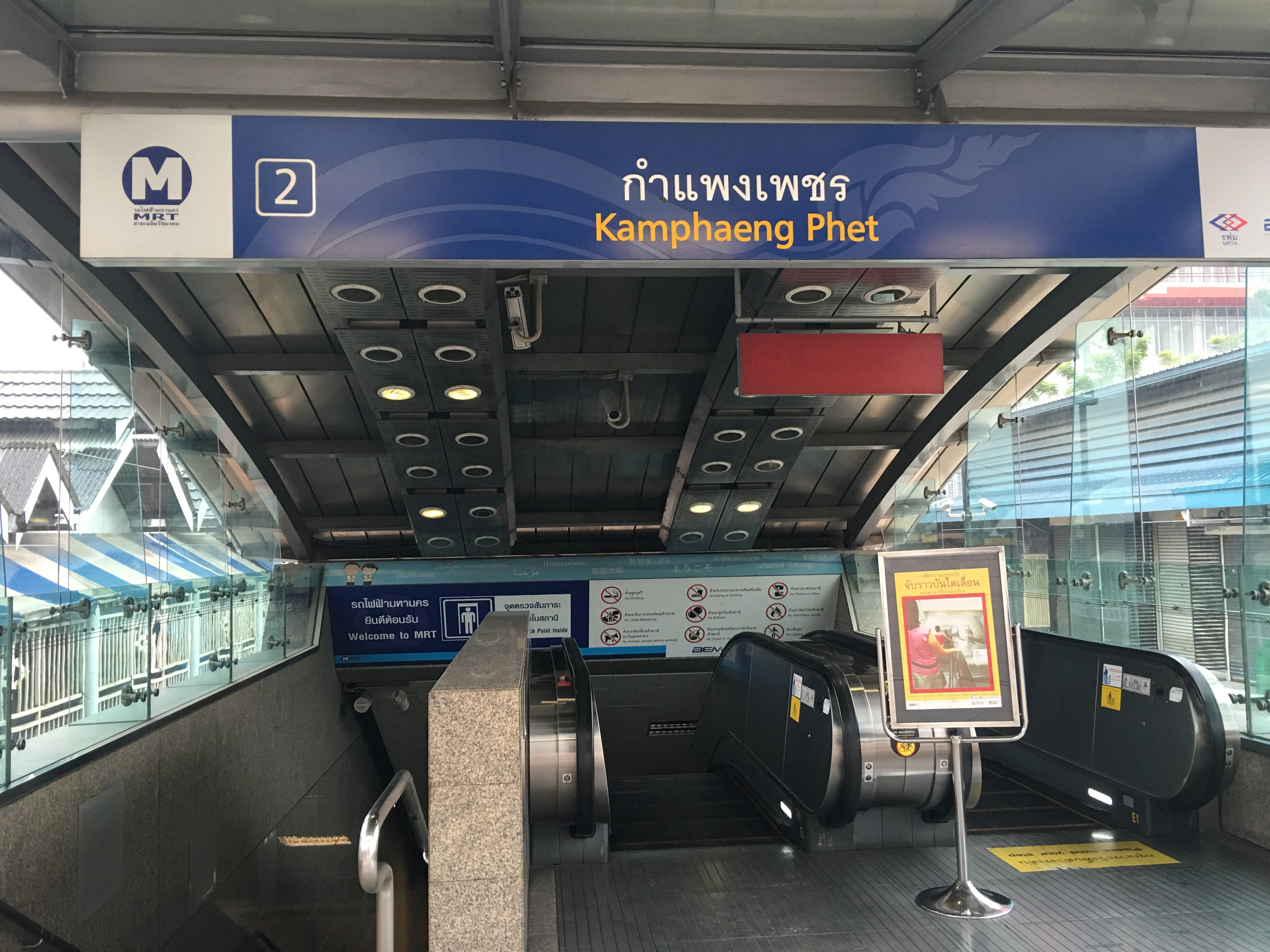 The entrance to Kamphaeng Phet Station